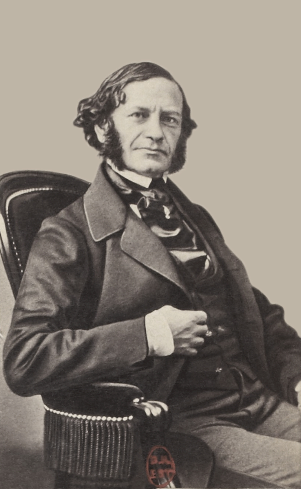 Henri Herz, (1803 - 1888), french pianist and composer, born austrian.